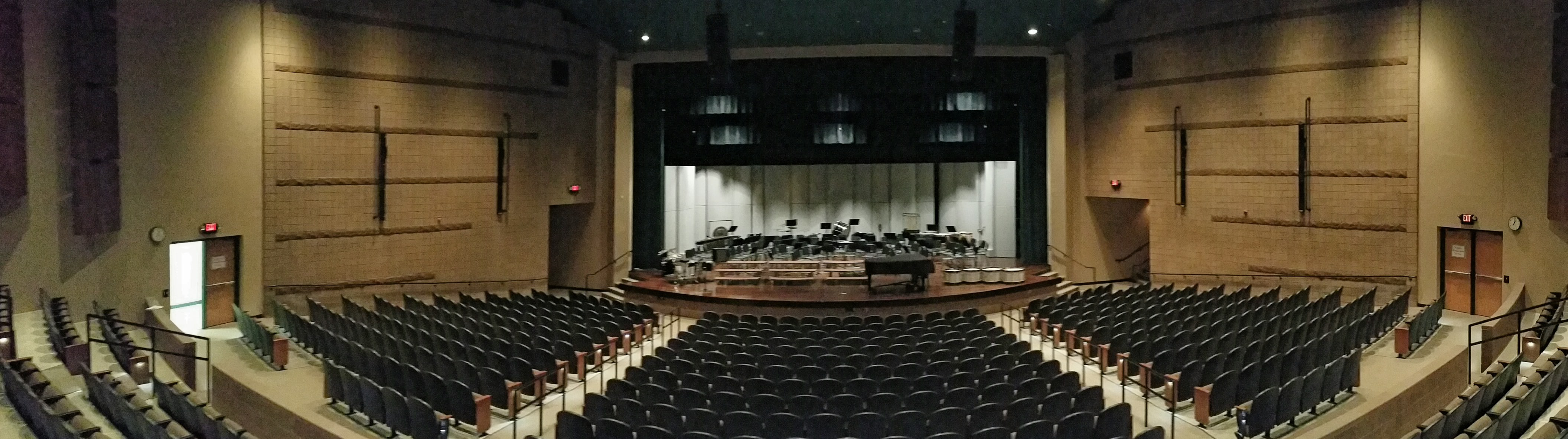 Rear View